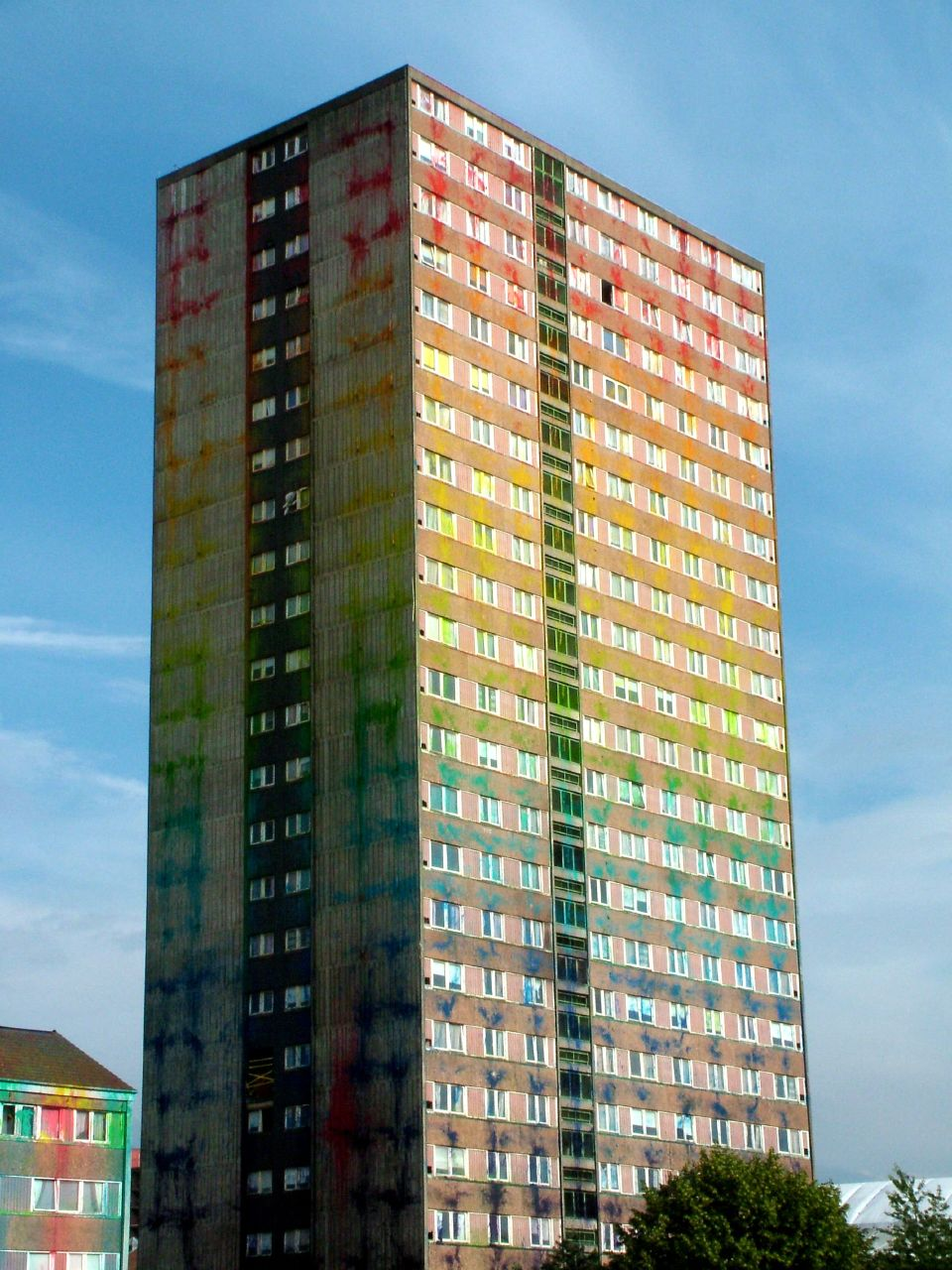 Toryglen, Glasgow tower block covered in 70,000 litres of paint with the help of over 1400 separate explosions. Advert for Sony BRAVIA televisions.